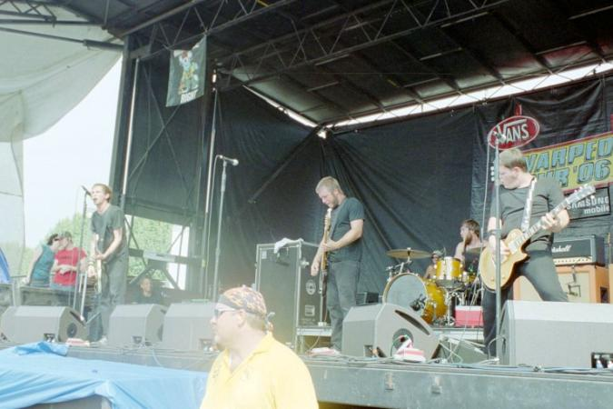 Against Me! at Warped Tour in Charlotte, NC, 2006.